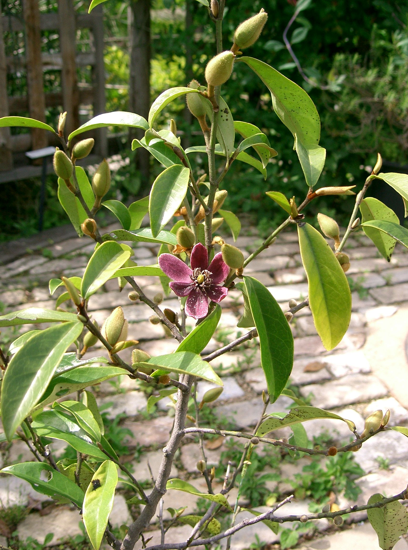 Michelia figo 'Purple Queen'